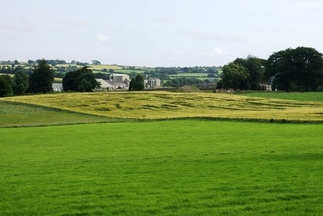 Farmland east of Ferns Looking south-west over silage fields and a badly-lodged field of barley. The mills at Milltown Bridge are visible in the background.